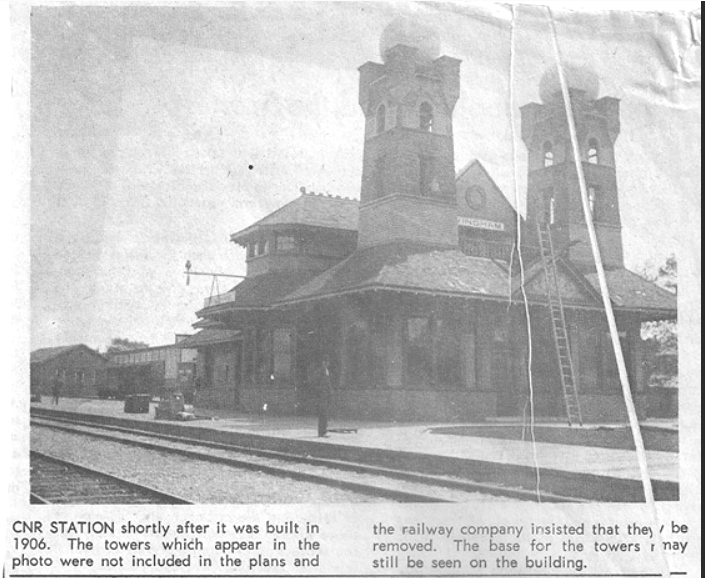 photo published in a local newspaper showing the station as it was built, seen in 1906.